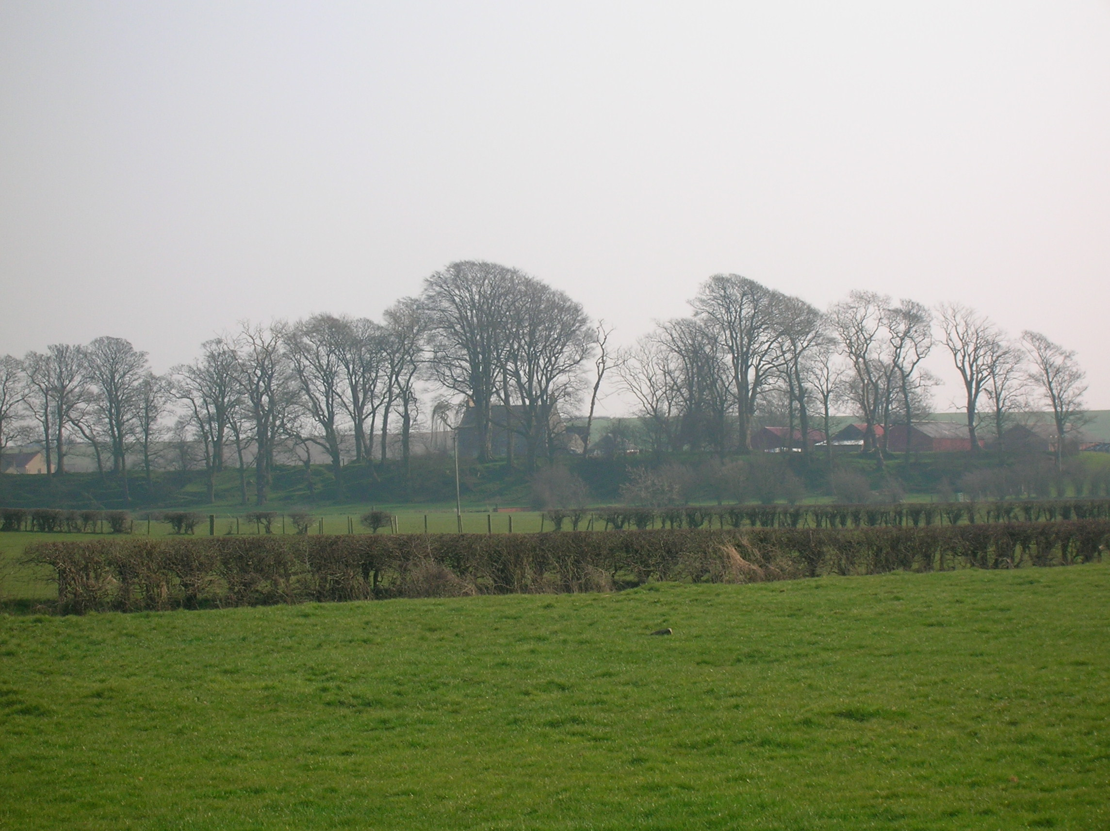 Carmel Bank farm from near Holm Farm, North Ayrshire, Scotland. 2007.